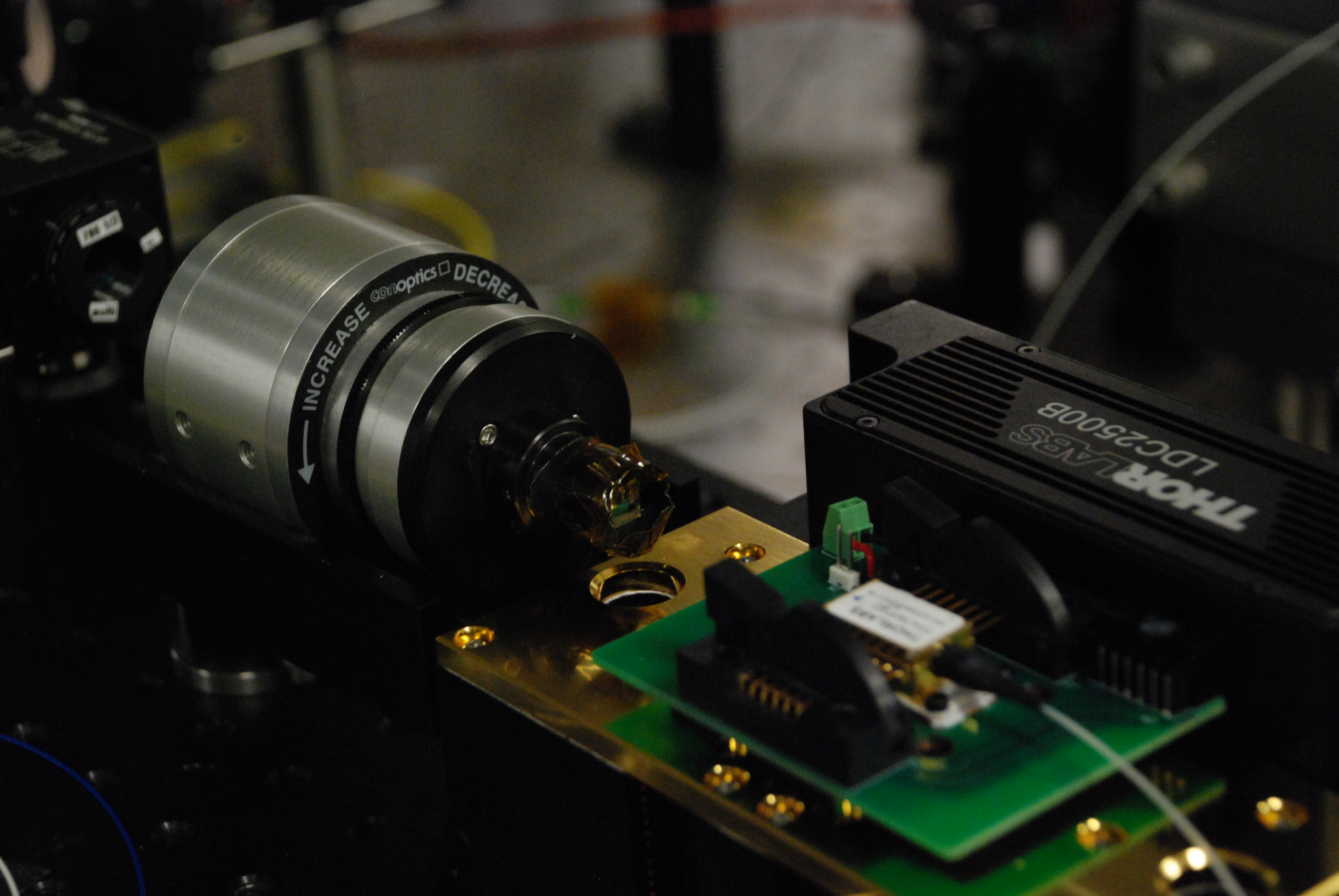 Fibered amplifier followed by an optical isolator.